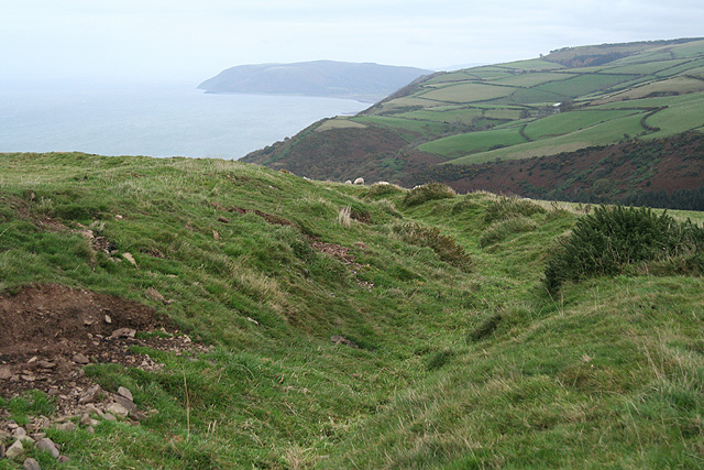 Countisbury: Old Burrow On a rampart of the Roman fortlet which is thought to have been built circa 51 AD and replaced by a fortlet at Martinhoe in circa 55 AD. Of the two Old Burrow is the better preserved. The two camps, probably only garrisoned in the summer months, served to keep watch on the hostile Celtic tribe, the Silures, who inhabited the Welsh coast on the far side of the Bristol Channel. Looking east-north-east along the coast to Hurlstone Point, beyond Porlock